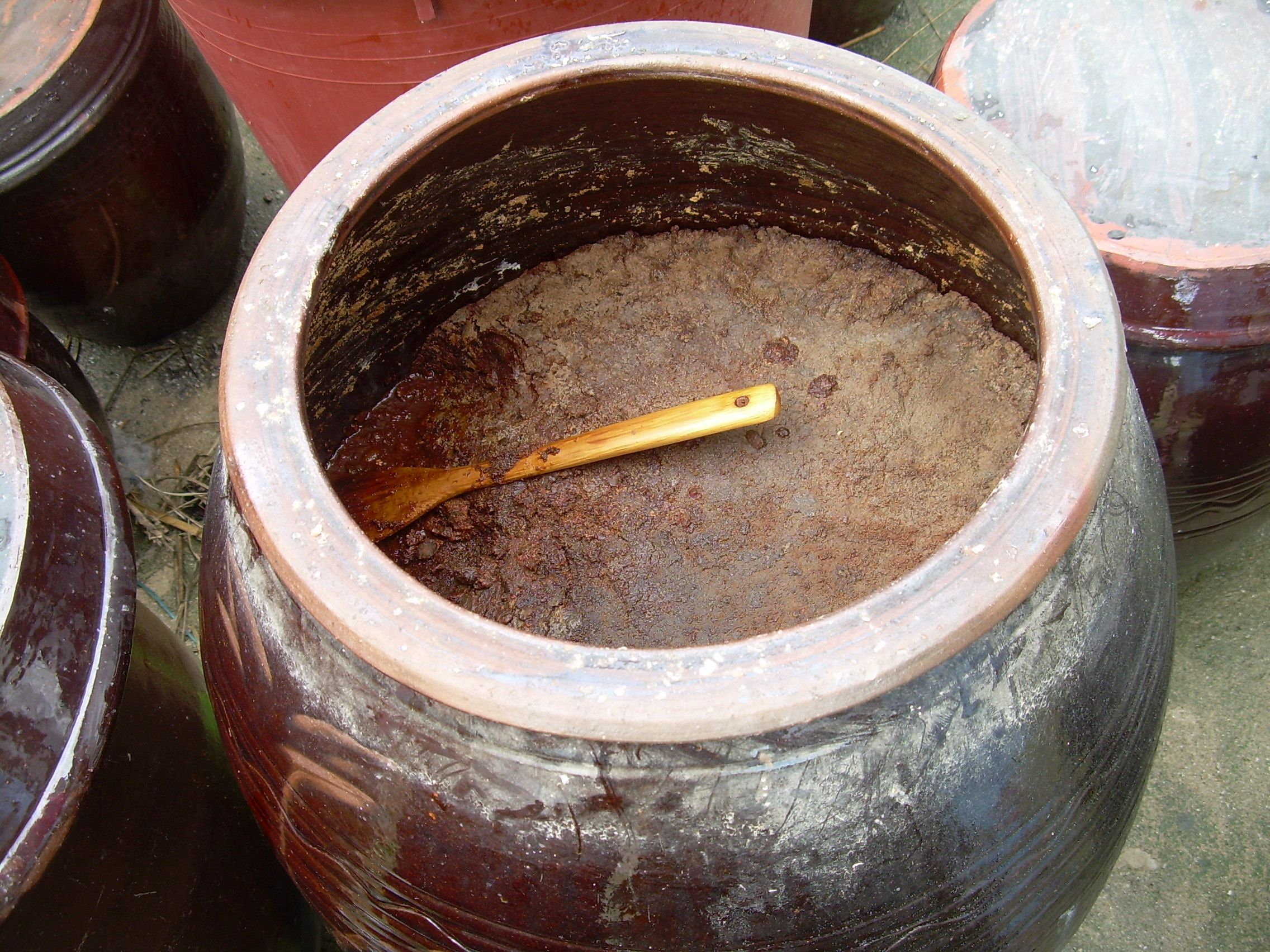 Traditionally Korean bean paste "denjang" was produced at home in earthen jars